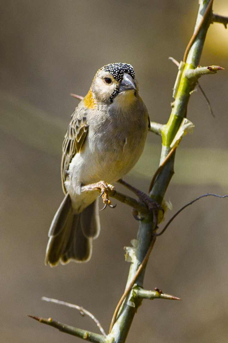 Speckle-fronted Weaver - Samburu - Kenya_S4E5151